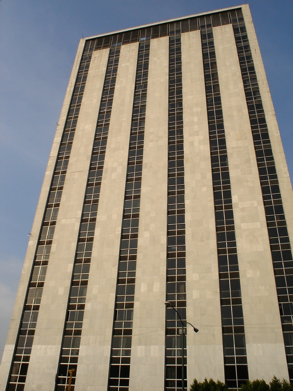 ANTIGUAS OFICINAS CENTRALES DE LA S. R. E. AHORA PERTENECIENTES AL PATRIMONIO DE LA U. N. A. M.